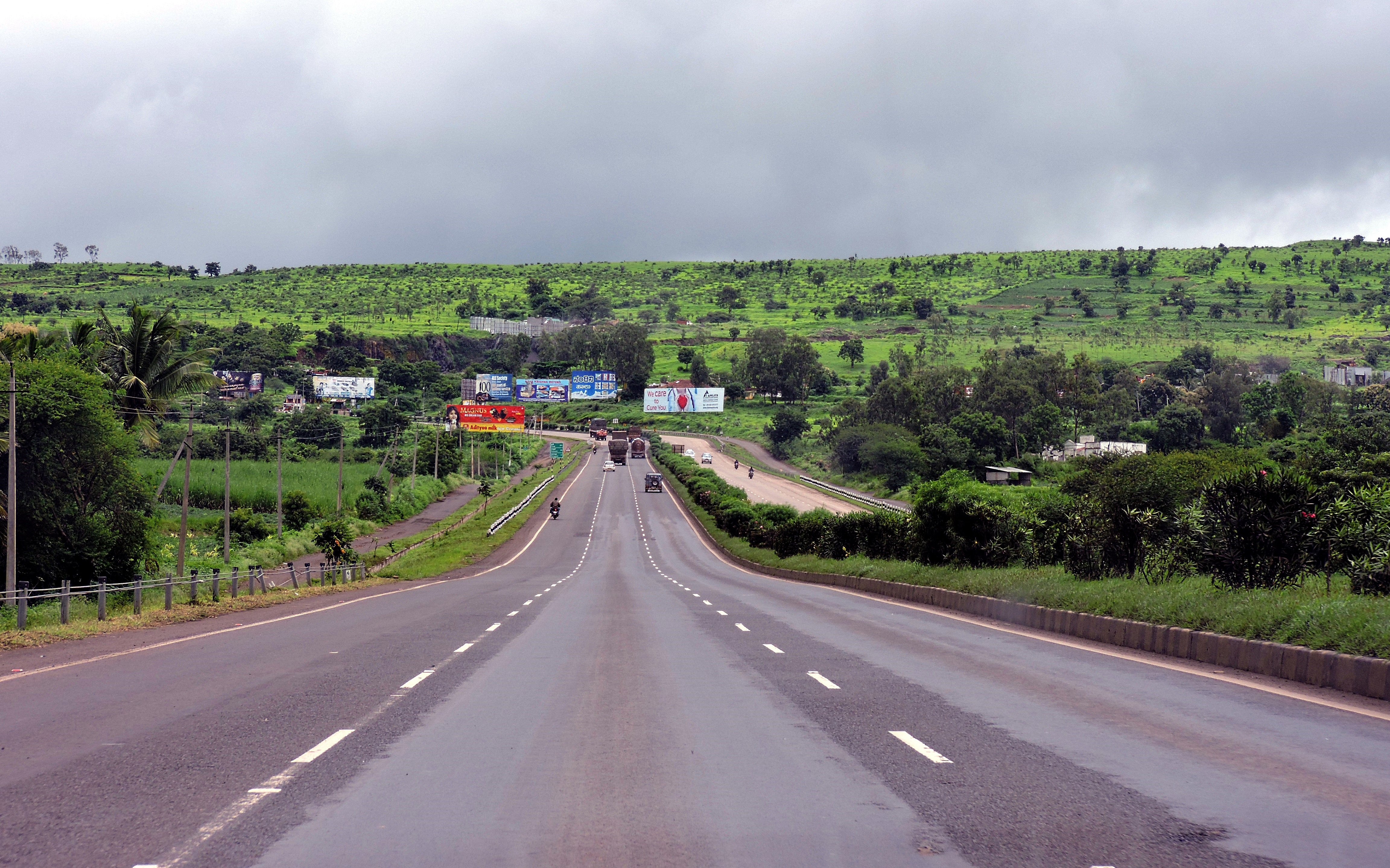 A scenic stretch of NH 48 (Formerly NH 4) between Hubli and Belgaum in North Karnataka.